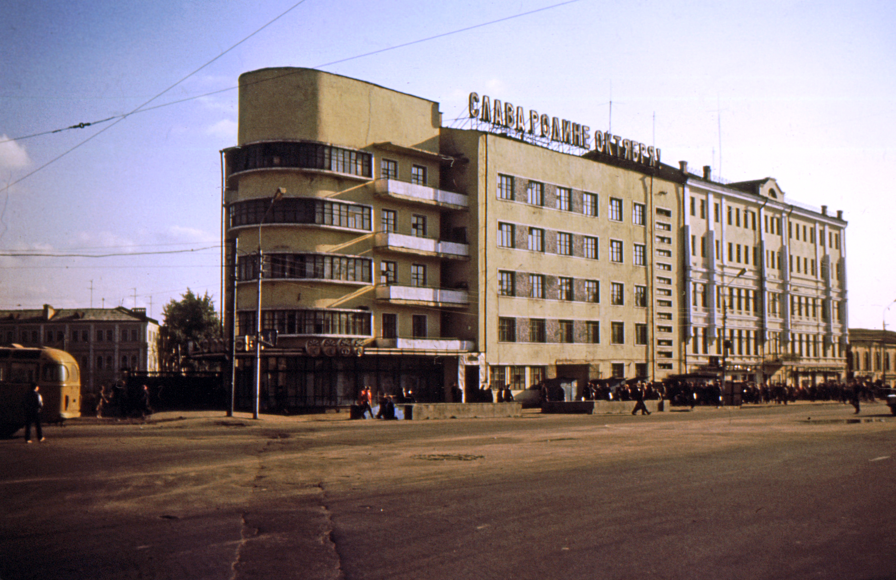 Gorky City. Revolution Square. The slogan on the building says "Glory to the Motherland of October!".